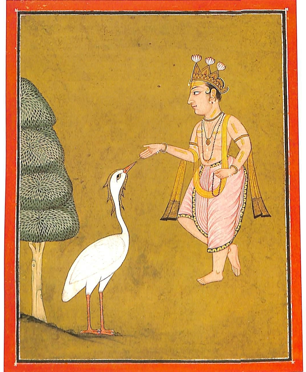 Hamsa, the Swan-Incarnation of Vishnu; Ascribed to Mahesh of Chamba